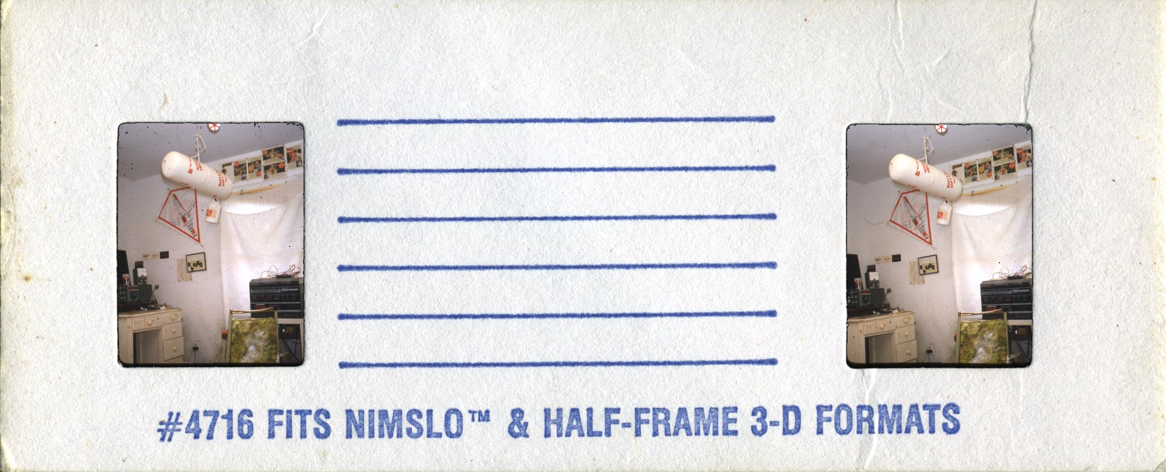 4P (half frame) cardboard slip in mount used for stereo slides from half frame cameras such as the Nimslo